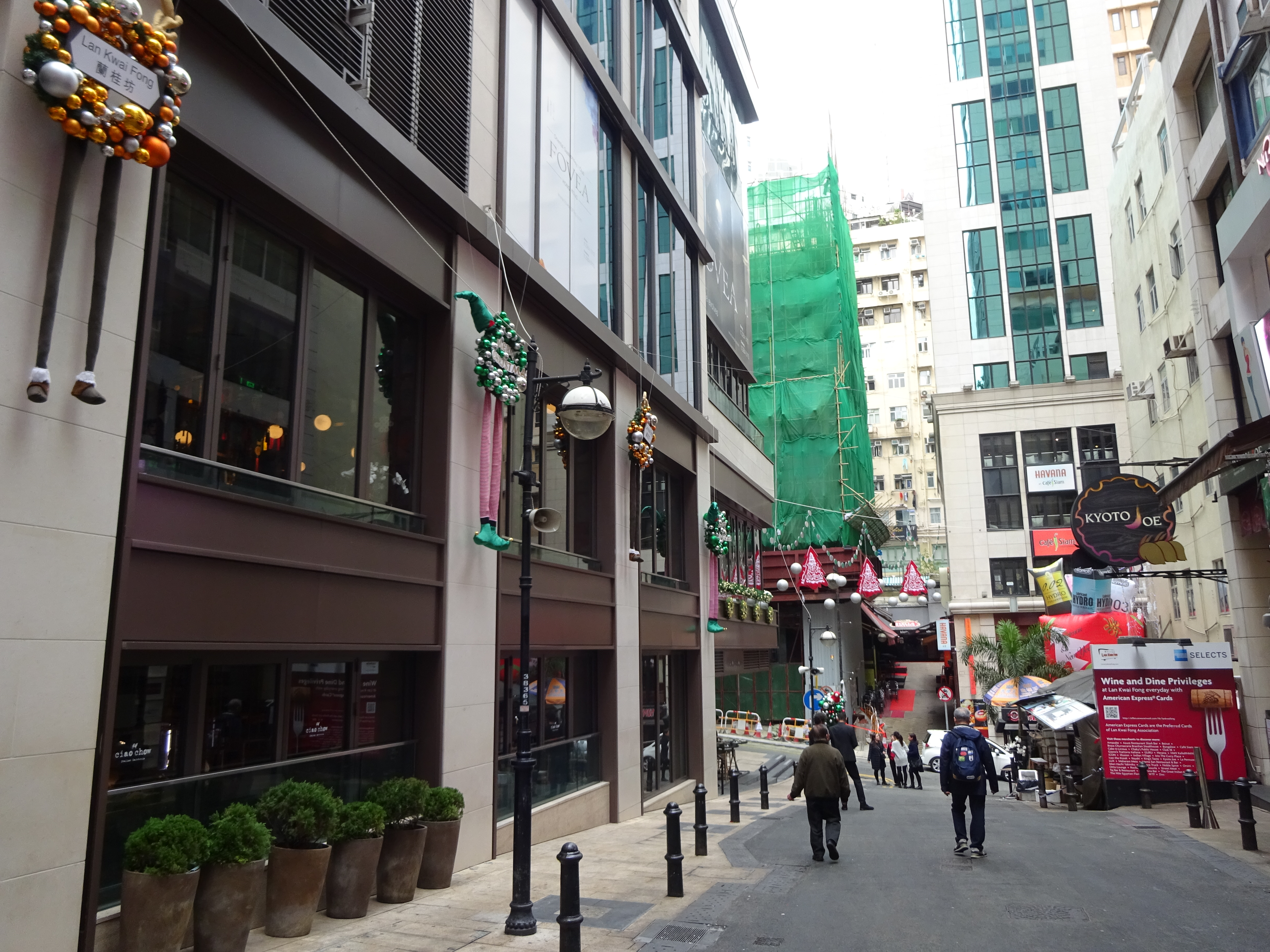 Central 蘭桂坊 Lan Kwai Fong 加州大廈 Carlifornia Tower Dec-2015 DSC